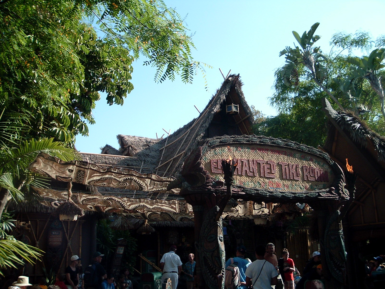 Exterior of Walt Disney's Enchanted Tiki Room at Disneyland